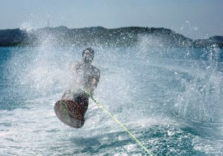 Kneeboarding in Palguera, Puerto Rico.